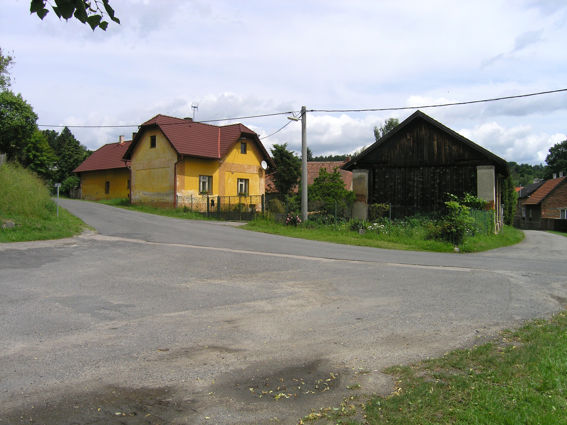 Common in Řepčice, part of Velké Popovice municipality, Czech Republic